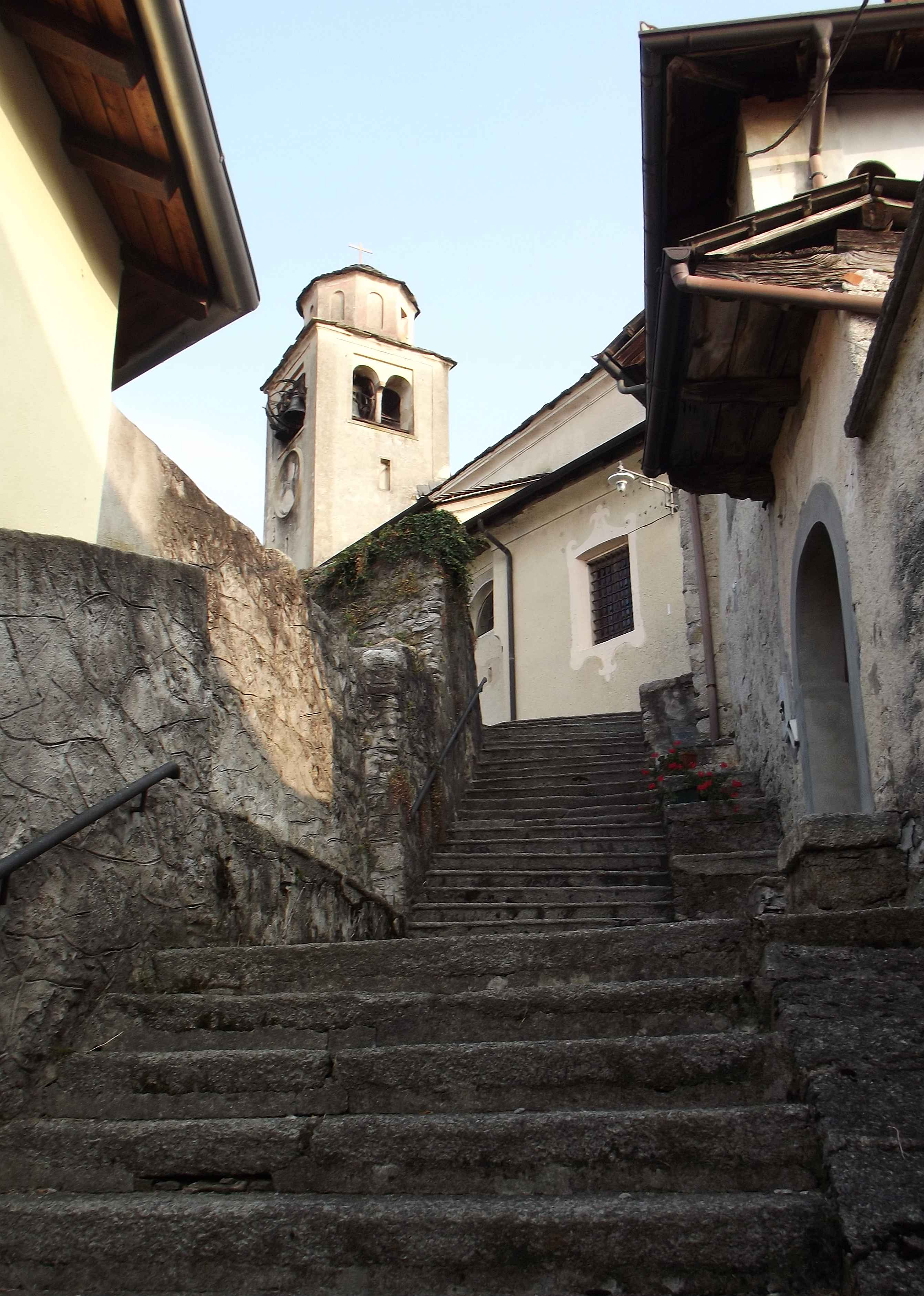 Boleto (Madonna del Sasso, VB, Italy): stair leading to the church